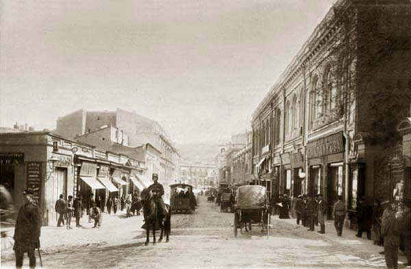 Sasakhle (Palace) Street. 1900